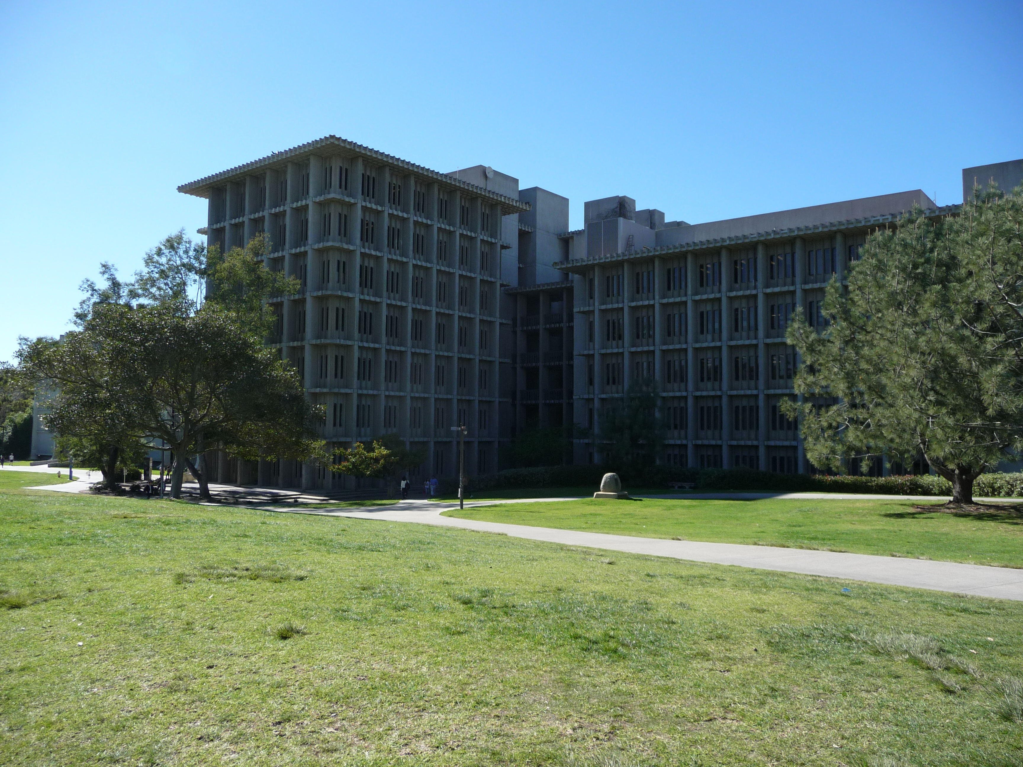 A general view of Muir College at UCSD.